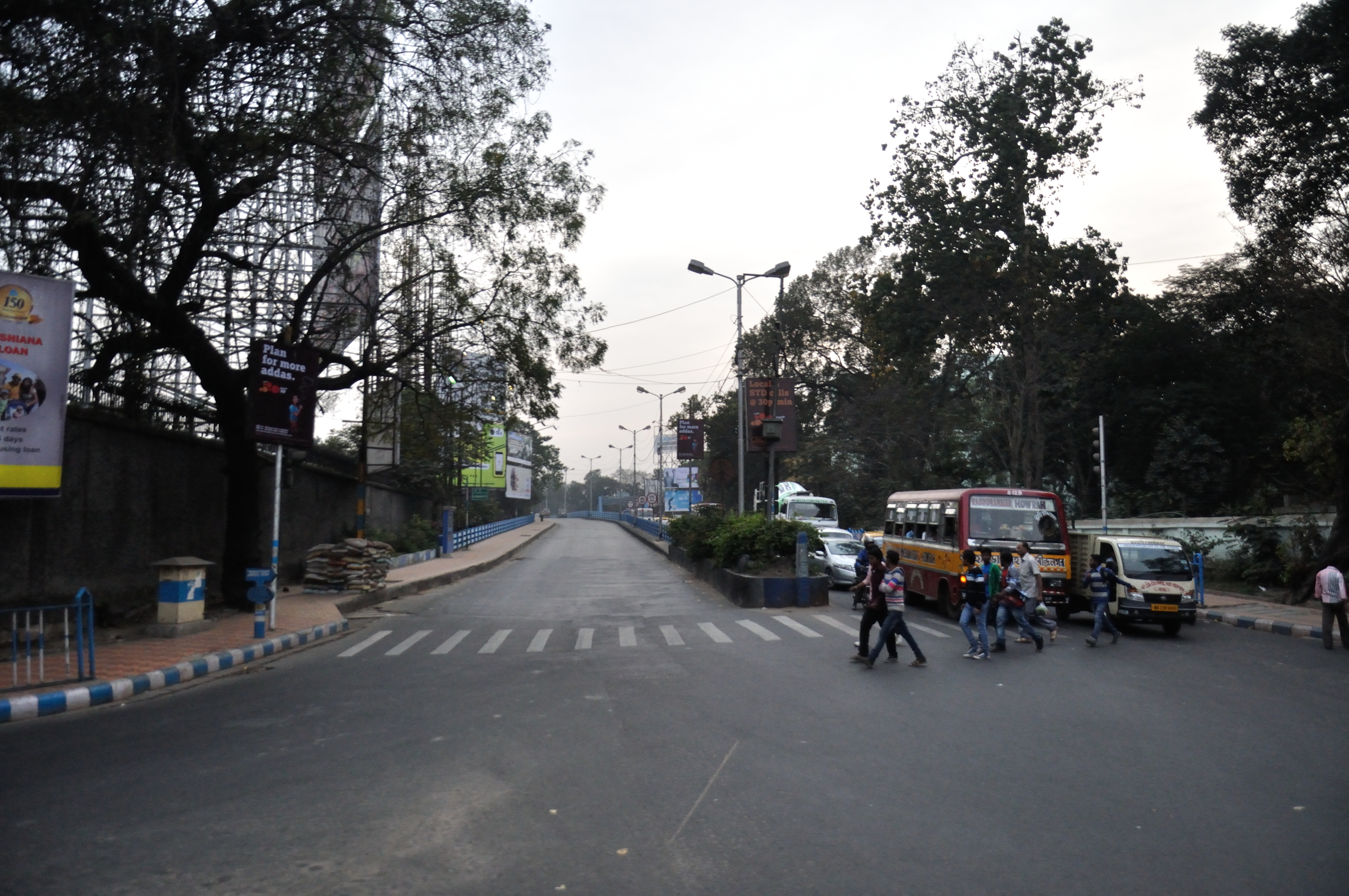 Photographed in Kolkata.